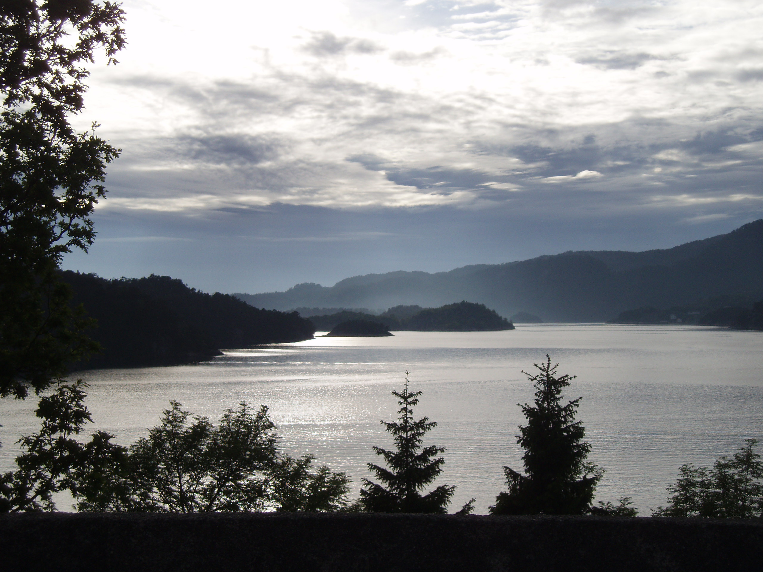 Lysefjorden south of Bergen, Norway.